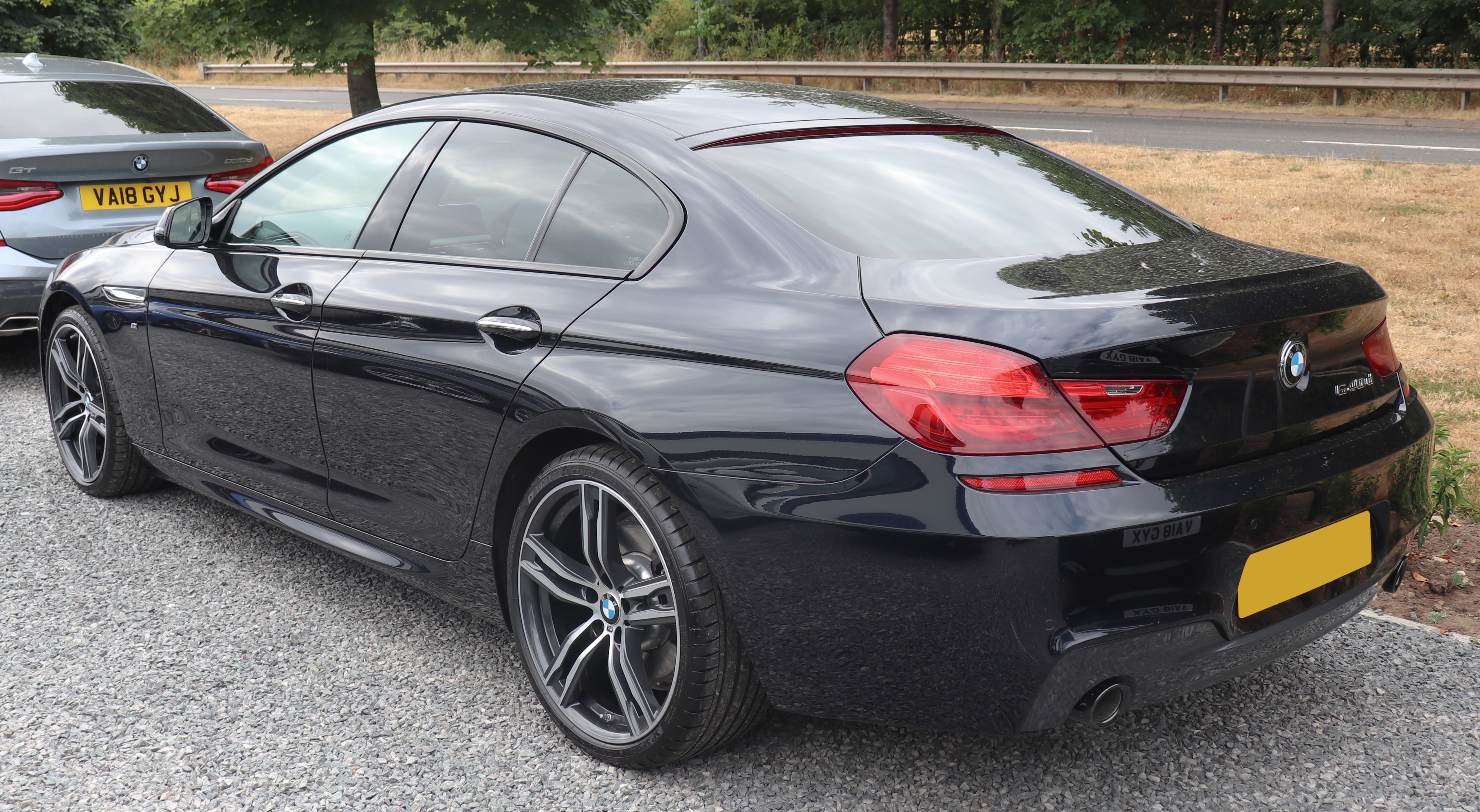 2018 BMW 640 3.0 Rear Taken in Leamington Spa